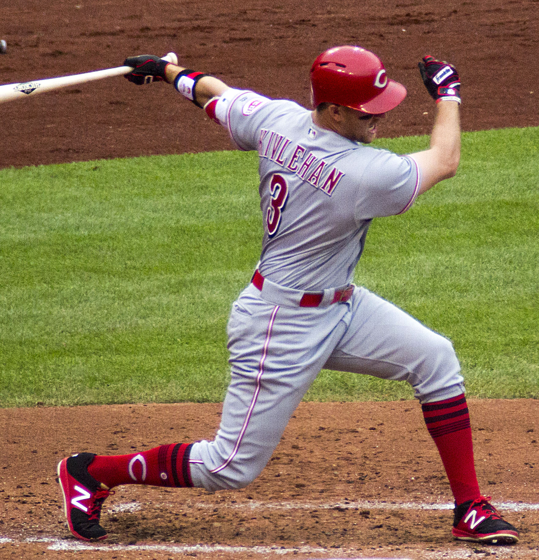 Patrick Kivlehan of the Cincinnati Reds, 2017.